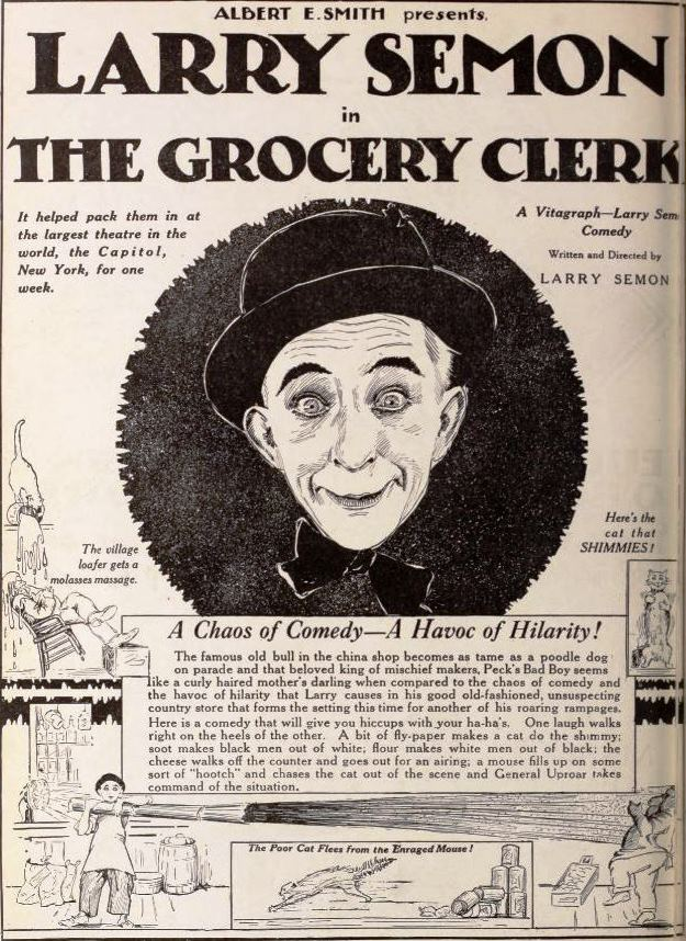 Advertisement for the American comedy short film The Grocery Clerk (1919) with Larry Semon, on page 4 of the February 21, 1920 Exhibitors Herald.